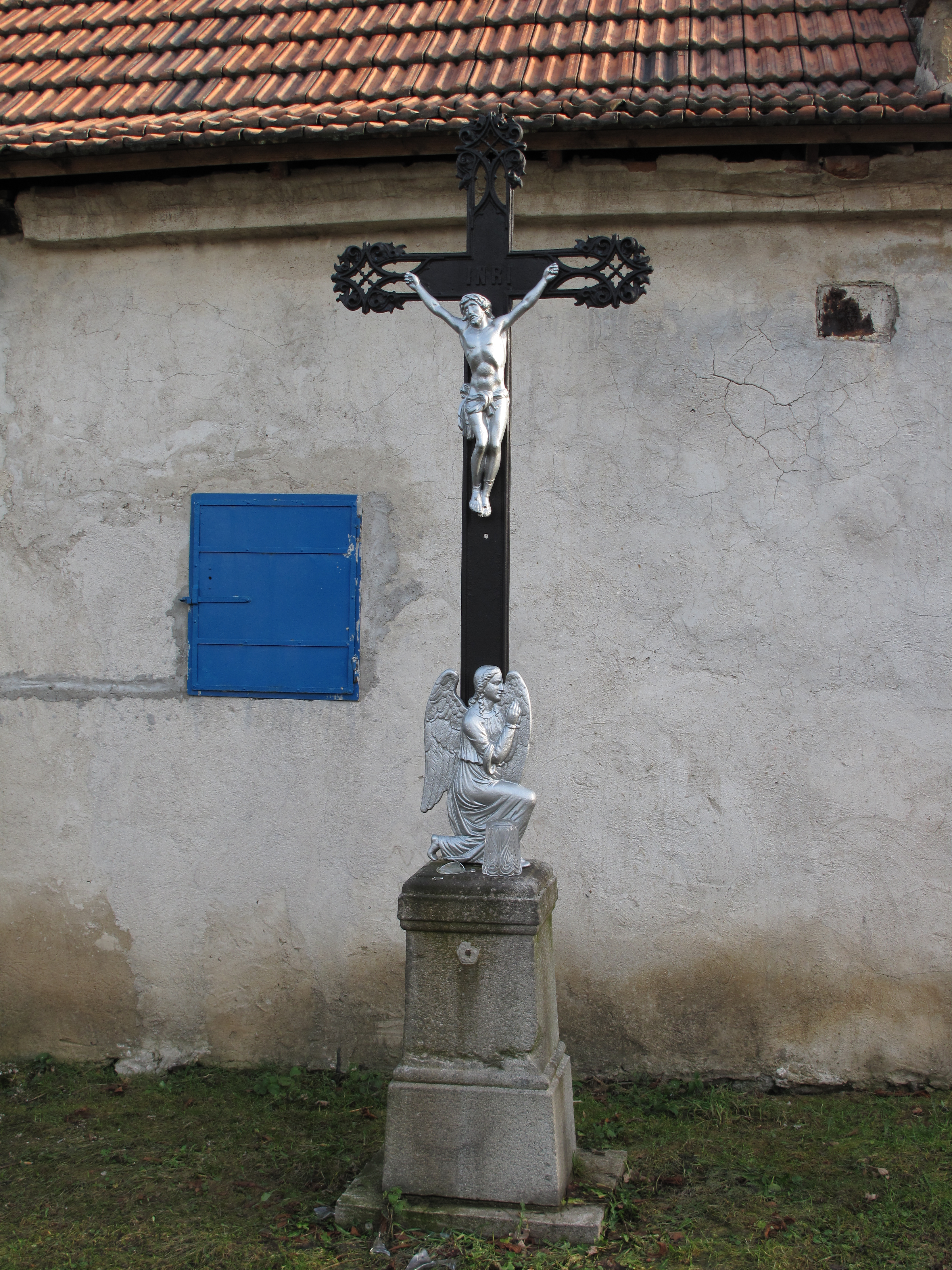 Wayside cross in Nové Dvory village, Příbram District, Czech Republic.